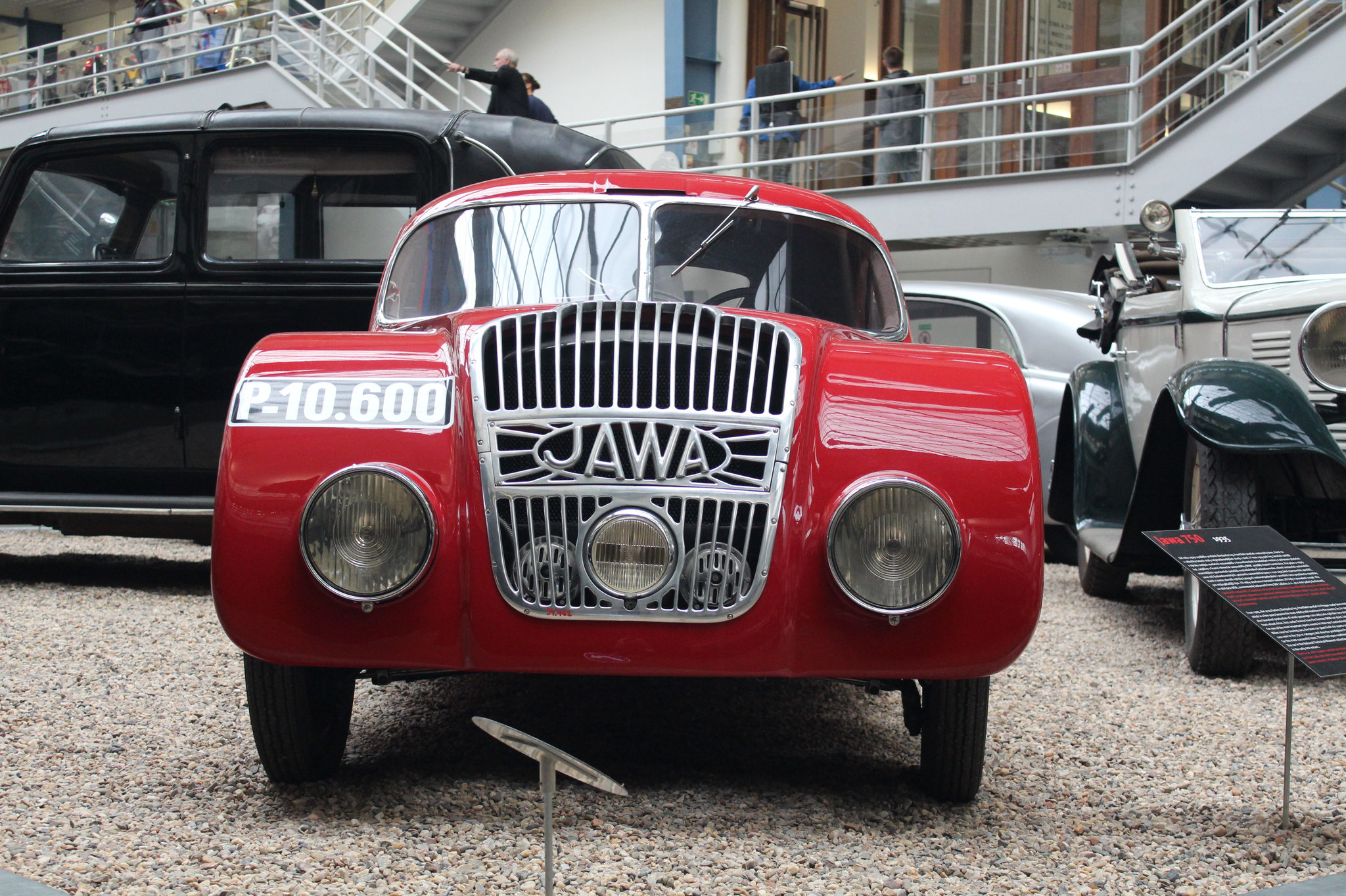 This image has been originally created as the illustration for Tjeckisk motorcykel entry in crosswords dictionary . It has been released under CC-BY-3.0 license.